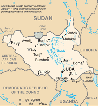 South Sudan map from CIA World Factbook, converted from original GIF format